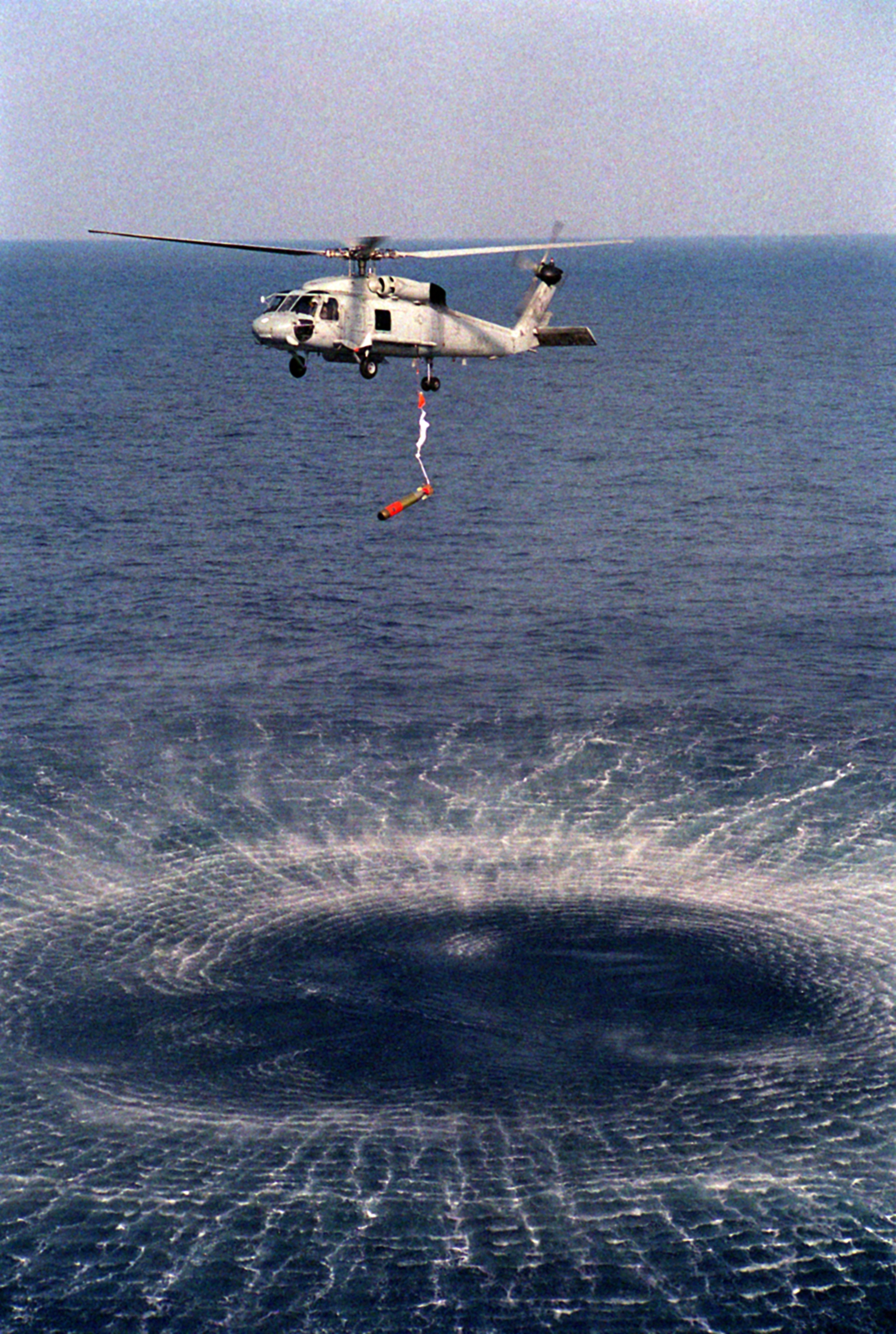 A U.S. Navy Sikorsky SH-60F Seahawk from Helicopter Anti-submarine Squadron 6 (HS-6) Indians, based at Naval Air Station North Island, California (USA), releases an Mk 46 exercise torpedo on 28 January 1991.